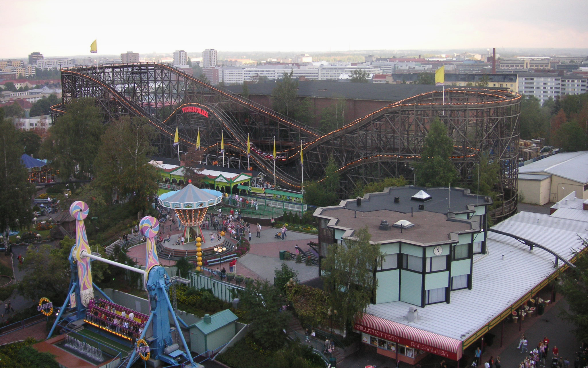 Linnanmäki amusement park in Helsinki, Finland, showing the famous wooden roller coaster. Photo by User:Janke If used outside Wikipedia, must be accompanied by credit line: "Photo by Wikipedia editor J-E Nyström (User:Janke)".